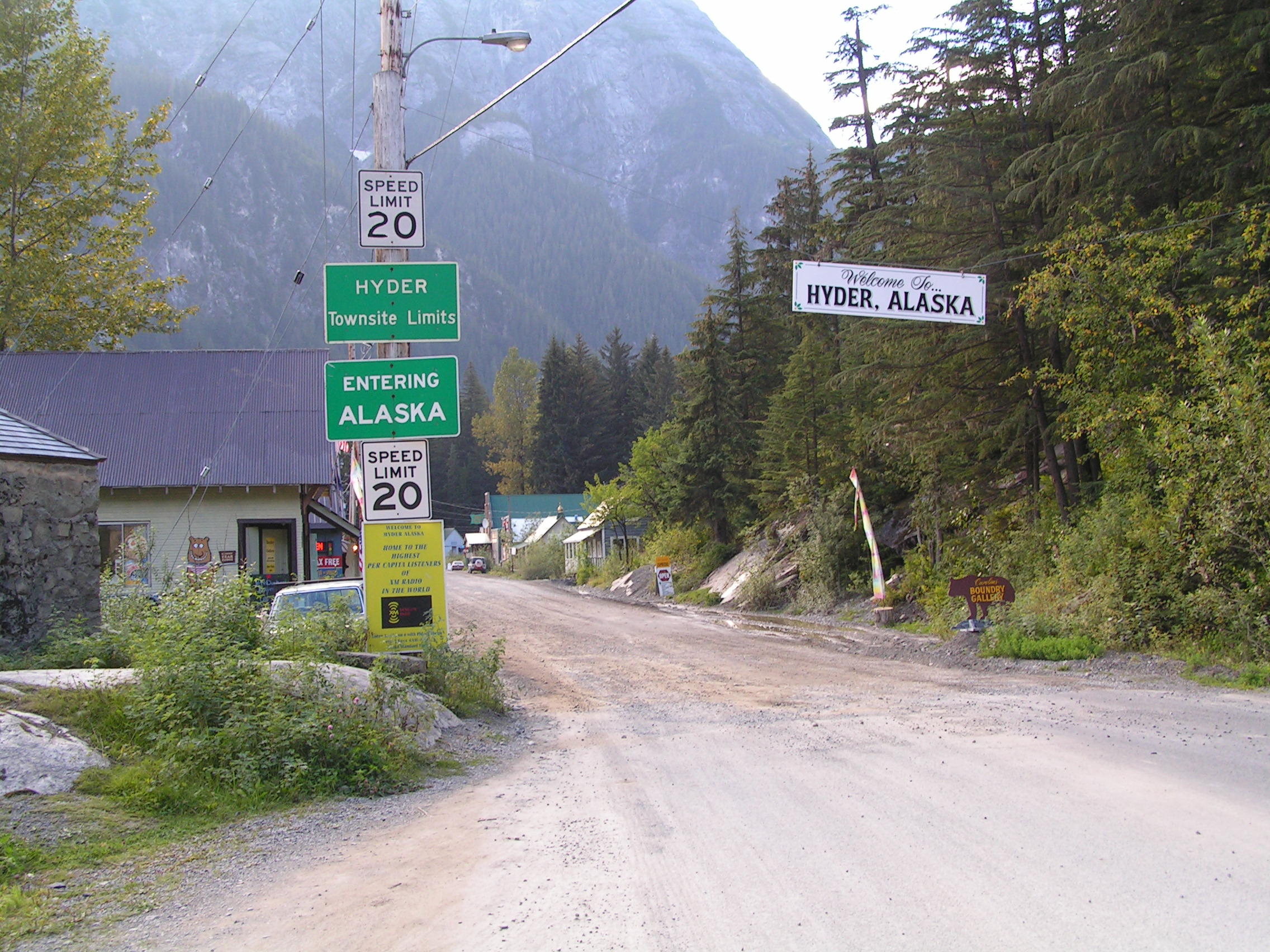 Border between Stewart, British Columbia, Canada and Hyder, Alaska, USA.